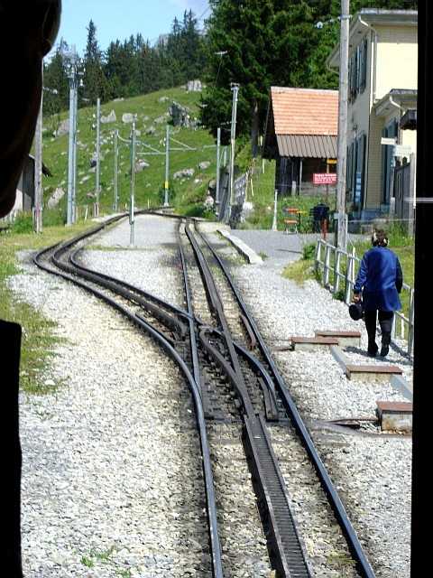 Schynige Platte-Bahn